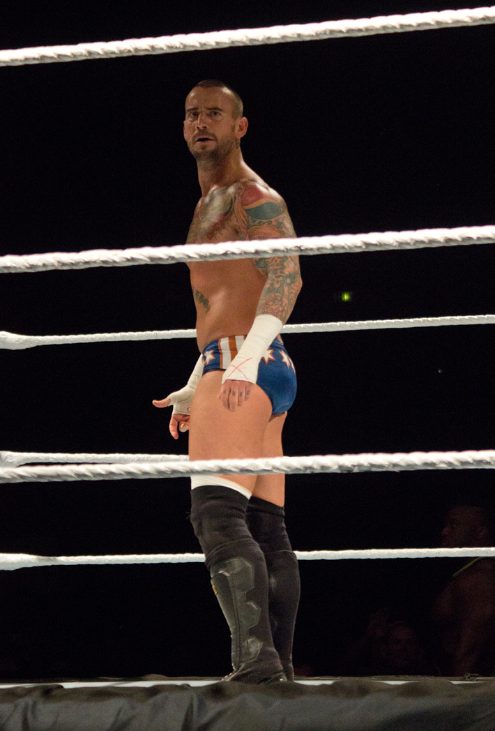 Punk getting heat from the audience in Montreal, Al on the 2/2/13.